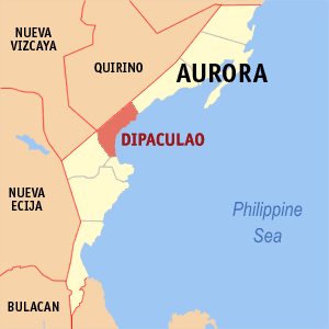 Map of Aurora showing the location of Dipaculao